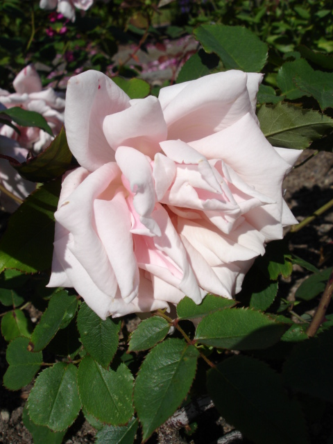 Rose Hybrid Tea 'Mme Leon Pain'